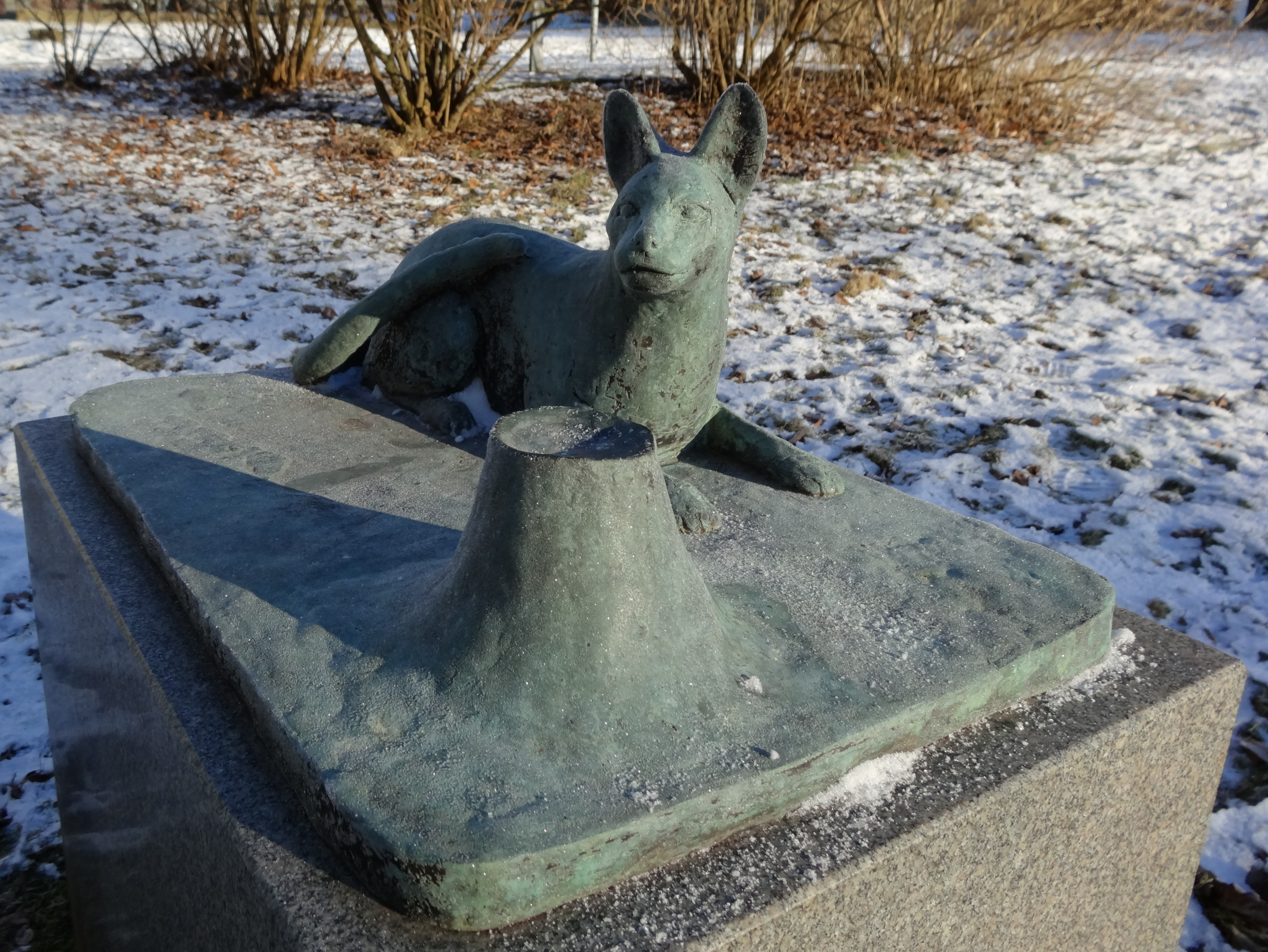 "Cat with a small volcano", sculpture by Bianca Maria Barmen. Göteborg, Sweden.